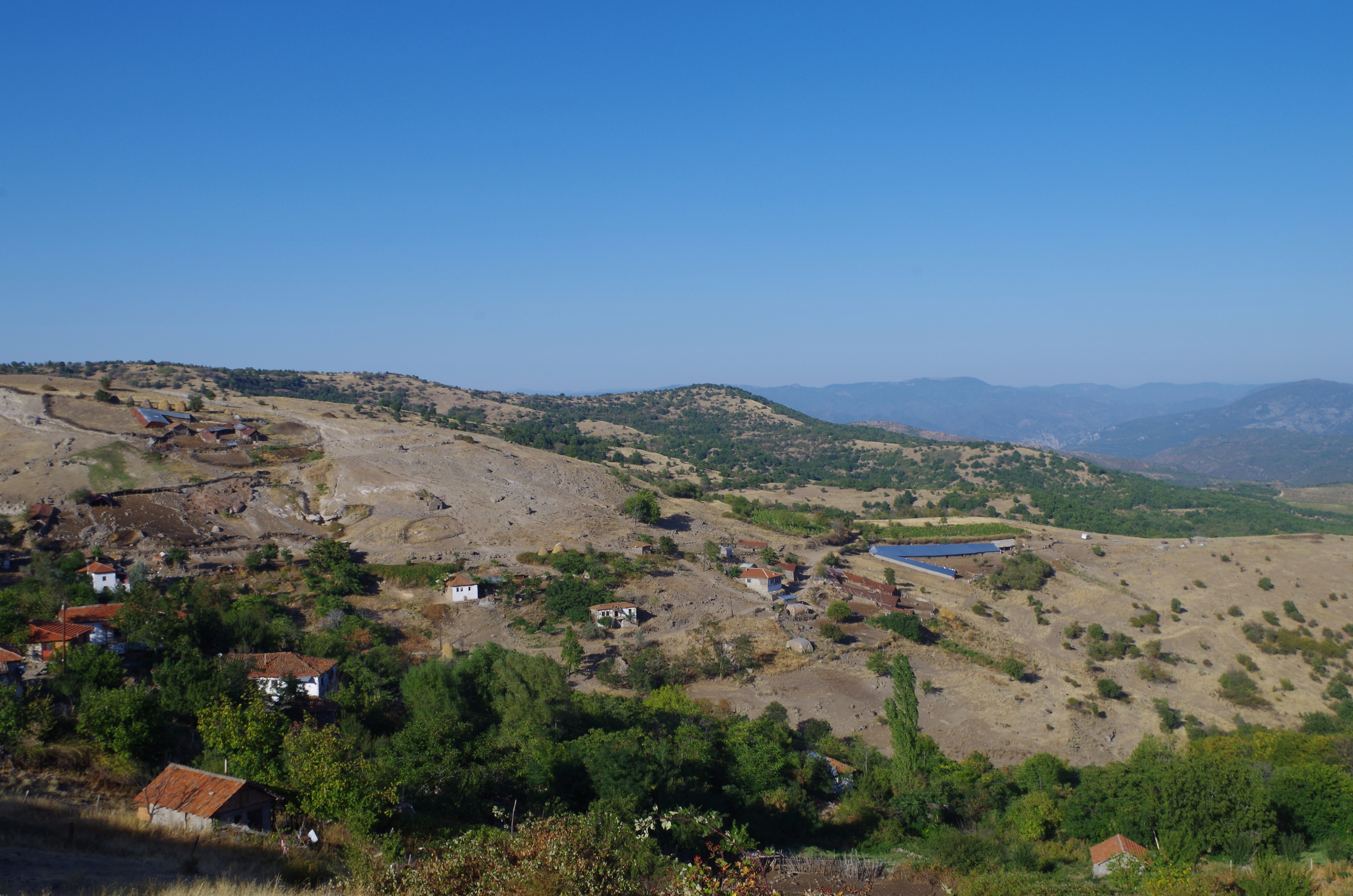 Panoramic view of the village of Stragovo